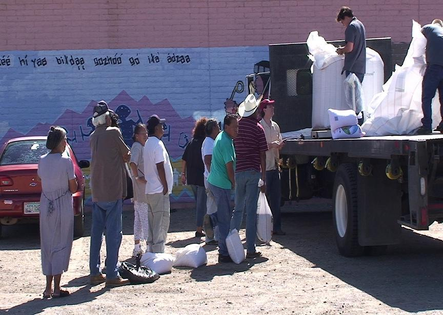 Purchasing Wild Jojoba Seed